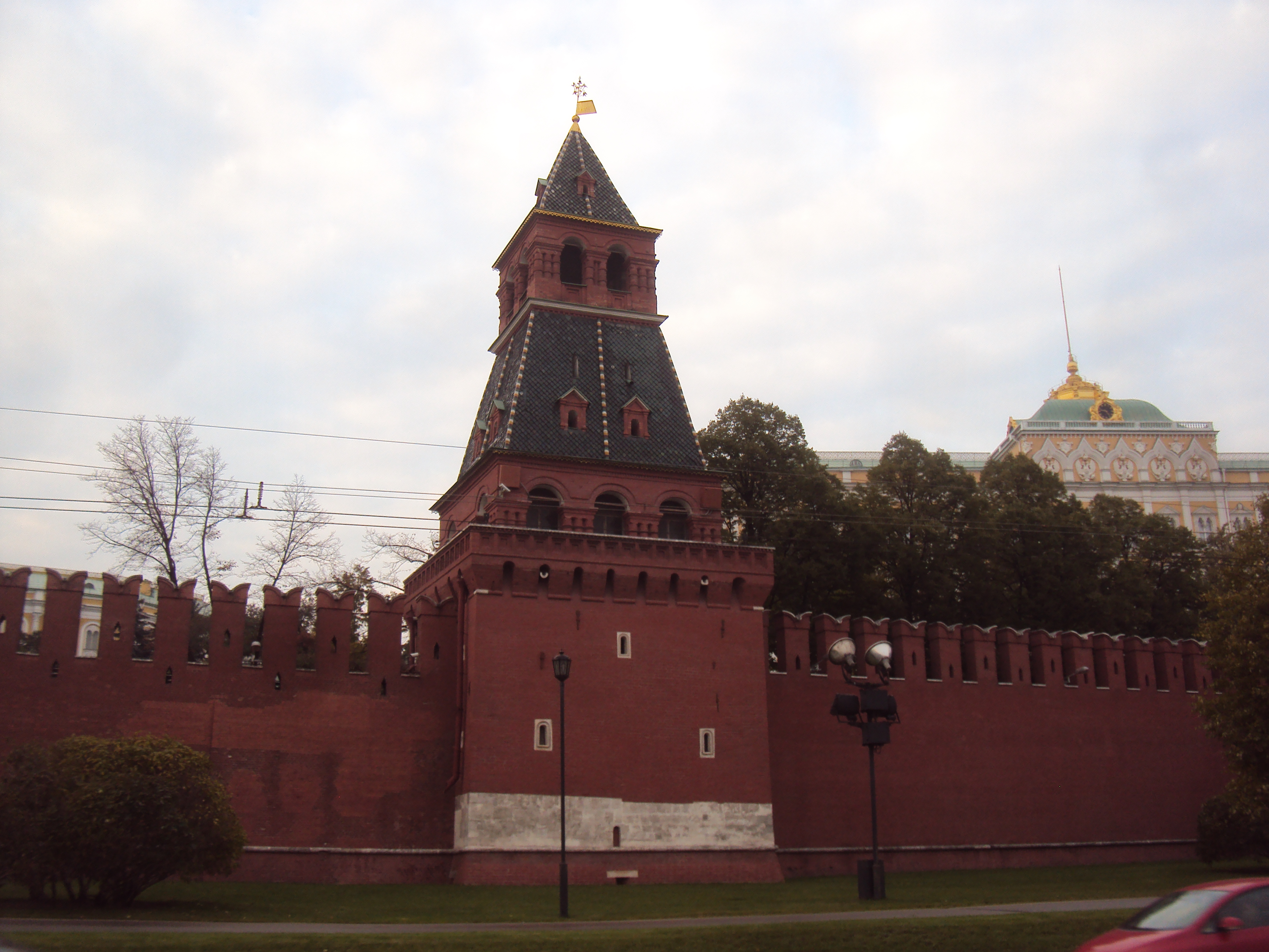 Annunciation tower